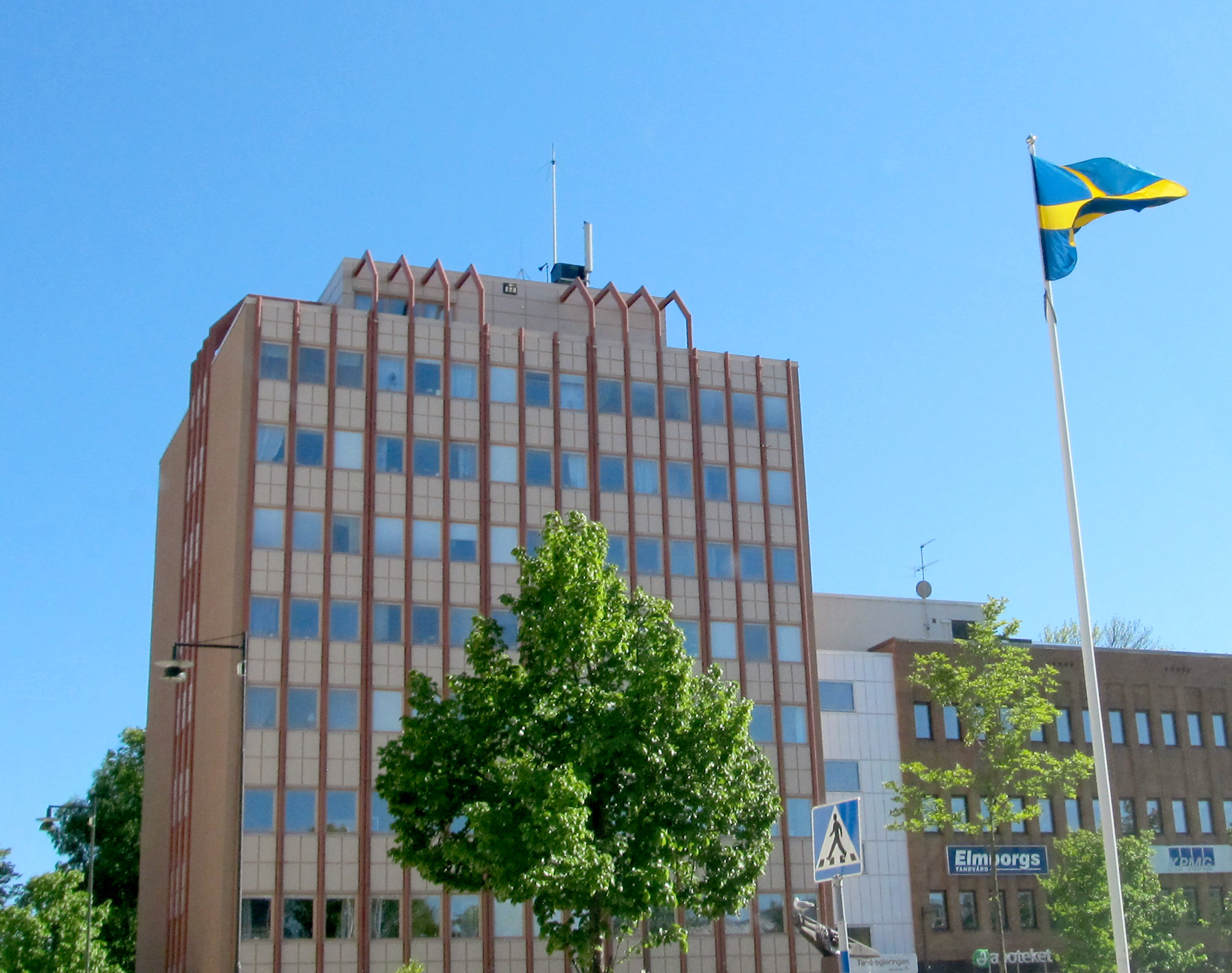 Building in Oskarshamn, Sweden, Europe.